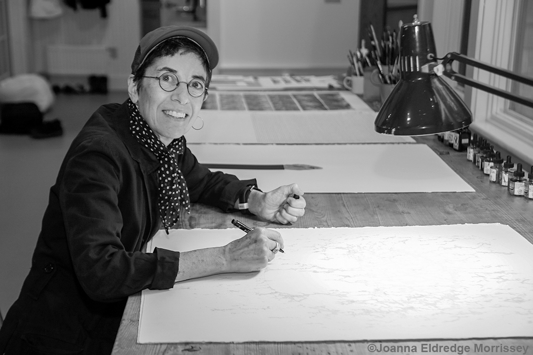 Alice Attie working in her studio.